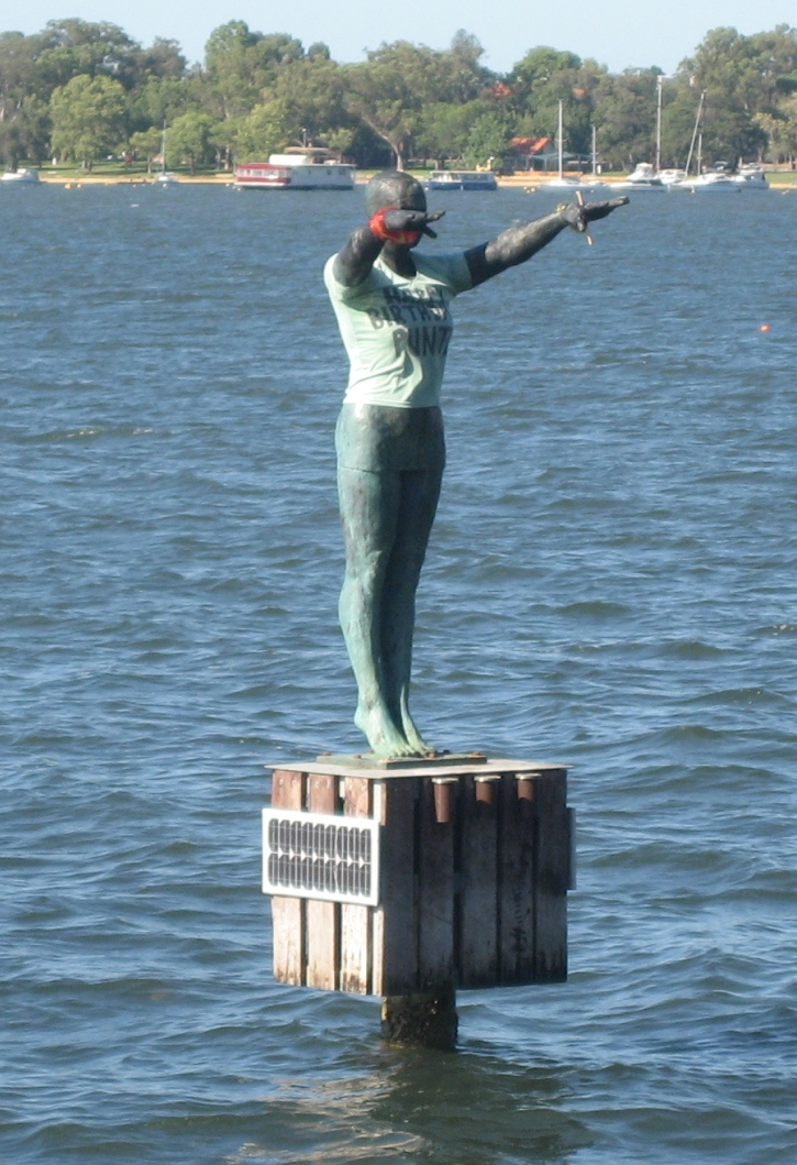 Public artwork "Eliza". In Matilda Bay, Crawley, Western Australia